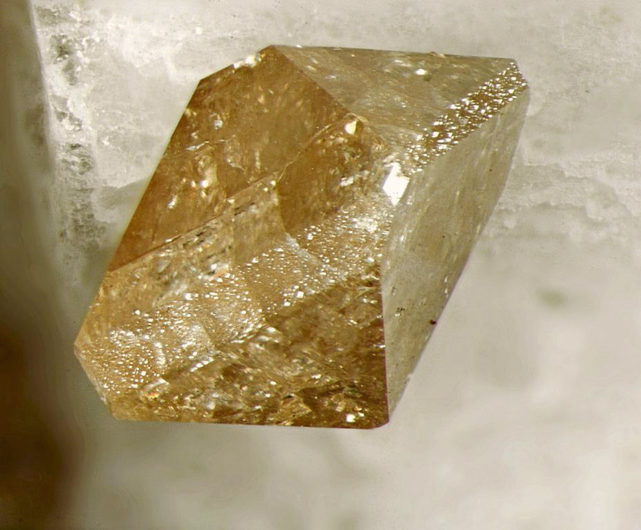 Zircon (FOV 3.0 x 2.4 mm) Locality: Poudrette quarry (Demix quarry; Uni-Mix quarry; Desourdy quarry; Carrière Mont Saint-Hilaire), Mont Saint-Hilaire, Rouville RCM, Montérégie, Québec, Canada Original description: This is very typical of the bi-pyramidal habit for zircon at MSH. Prismatic xls do occur but they are not common. On this xl the pyramidal faces are smooth but the small “belt” of prism faces is “pebbly” due to many tiny faces with re-entrant angles. The habits of zircon are apparently related to formation temperature and melt composition. See Lapis Nov 2011 p. 23.